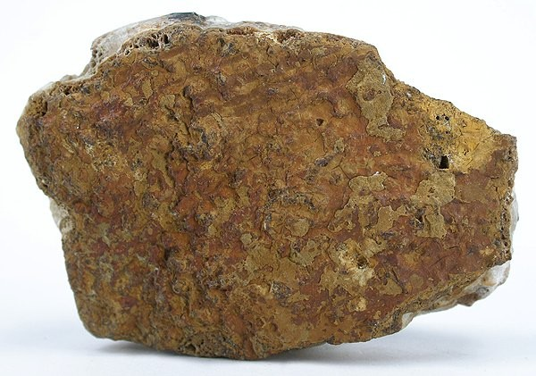 Hagemannite Locality: Ivigtut Cryolite deposit, Ivittuut (Ivigtut), Arsuk Firth, Arsuk, Kitaa (West Greenland) Province, Greenland (Locality at ) Size: 7.1 x 4.7 x 2.8 cm. Hagemannite is very rare, known only from the famous Cryolite Deposit at Ivigtut, Greenland. It is a mixture of impure thomsenolite with ralstonite and geothite. Thomsenolite and ralstonite are rare, complex halides and Ivigtut is the Type Locality for both species. The piece is essentially massive thomsenolite with a rich, thick crust of hagemannite. Probably mined around 1900. Ex. Mullane and Hageman Collections, and accompanied by old Ward’s labels (one attached to the back of the piece).